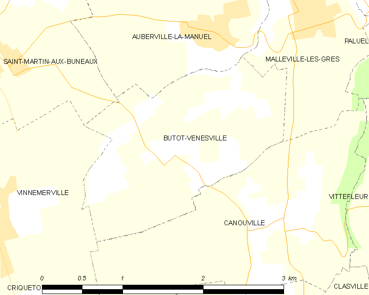 Map of French municipality Butot-Vénesville